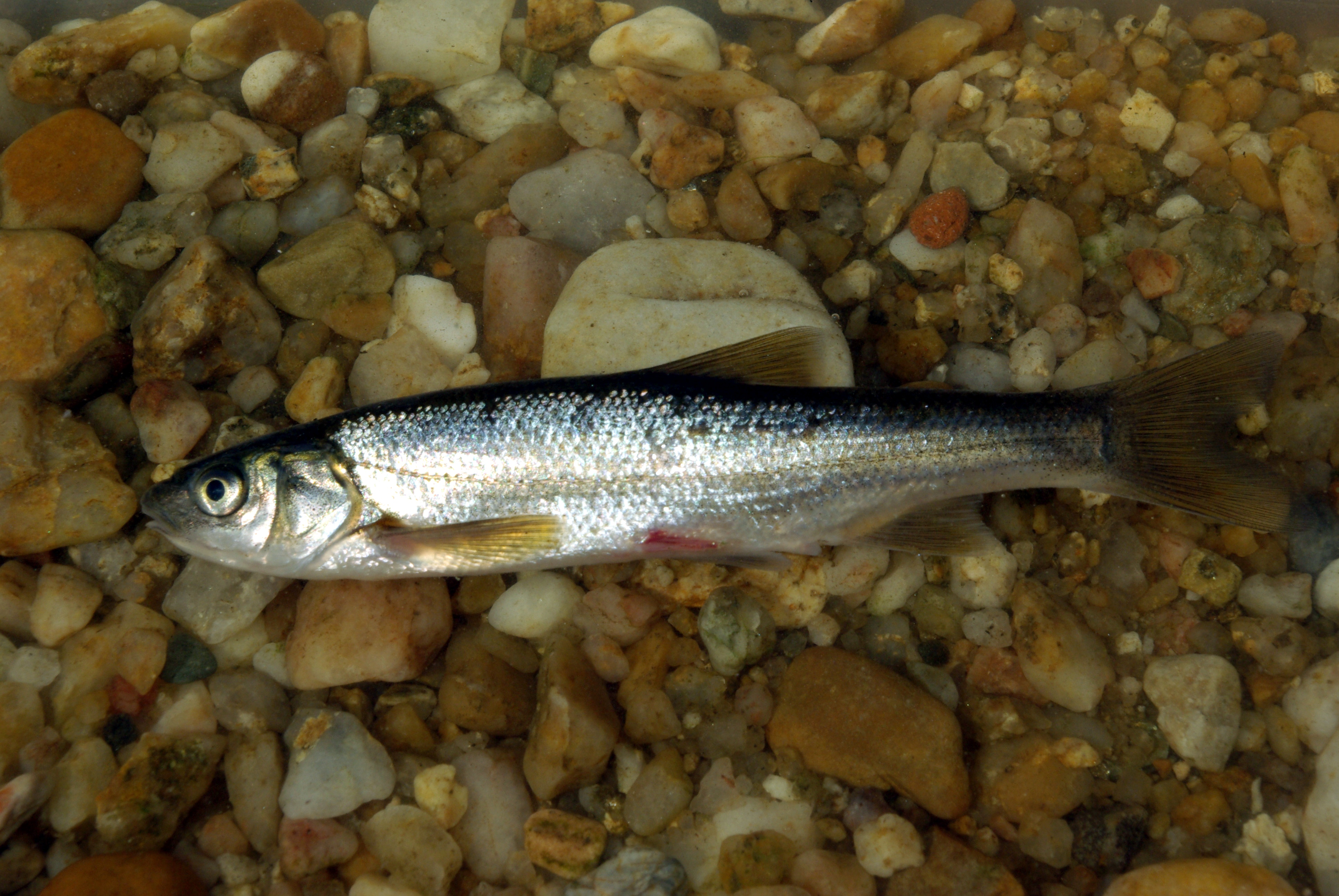 Achondrostoma salmantinum. River Yeltes, Salamanca (Spain).